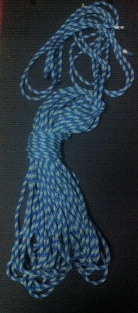 A butterfly coil of static climbing rope.